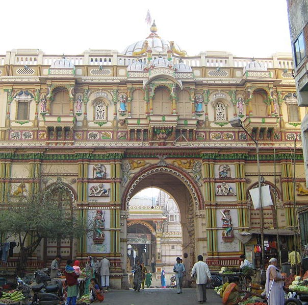 Photos of Ahmedabad's Walled City taken during the Heritage Walk conducted jointly by Ahmedabad Municipal Corporation and the CRUTA Foundation